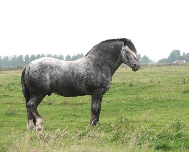 Spotted roan horse One of a small herd of horses grazing this pasture in the Norton Marshes.